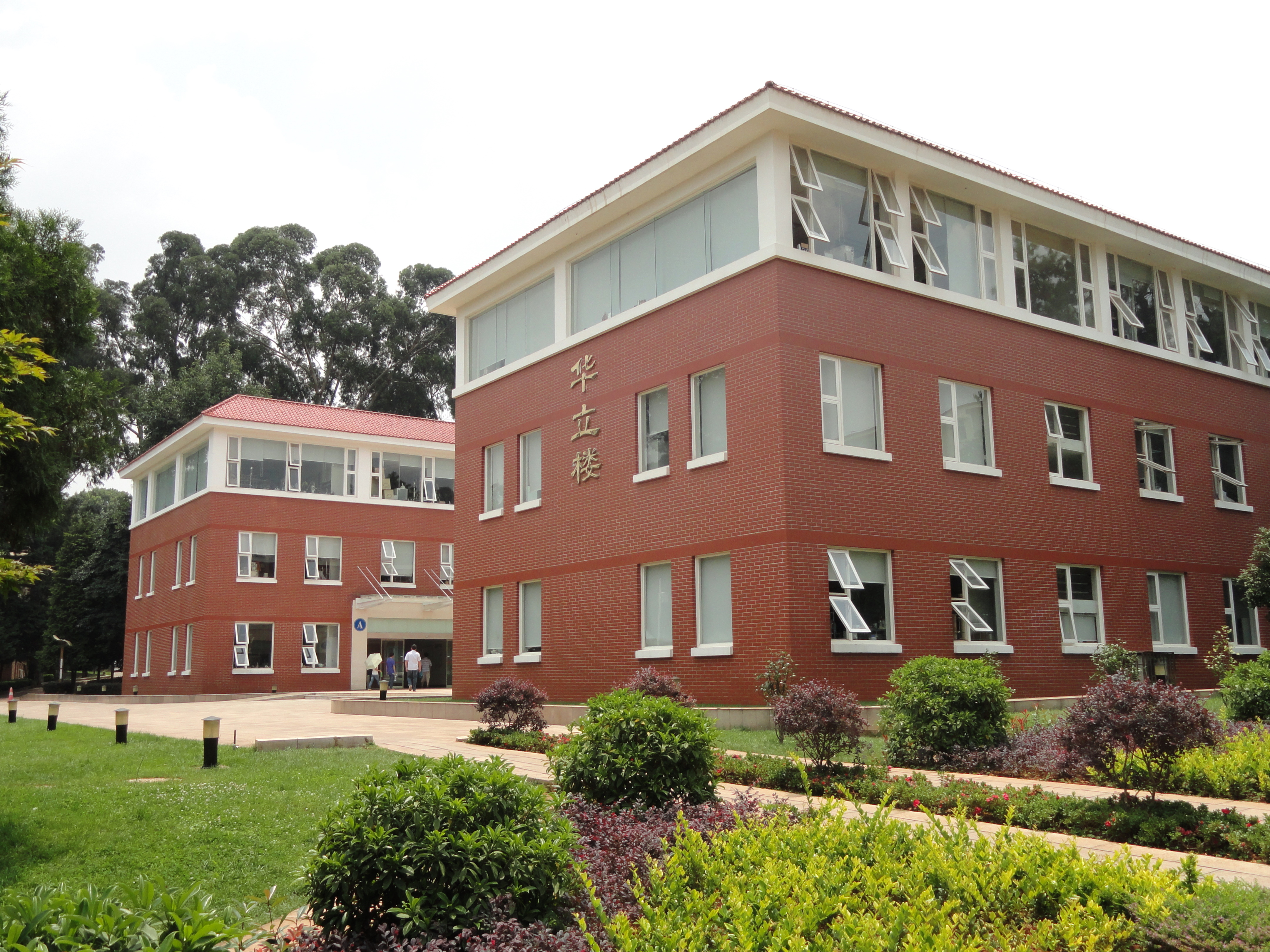 Kunming Institute of Botany in the Kunming Botanical Garden, Kunming, Yunnan, China.